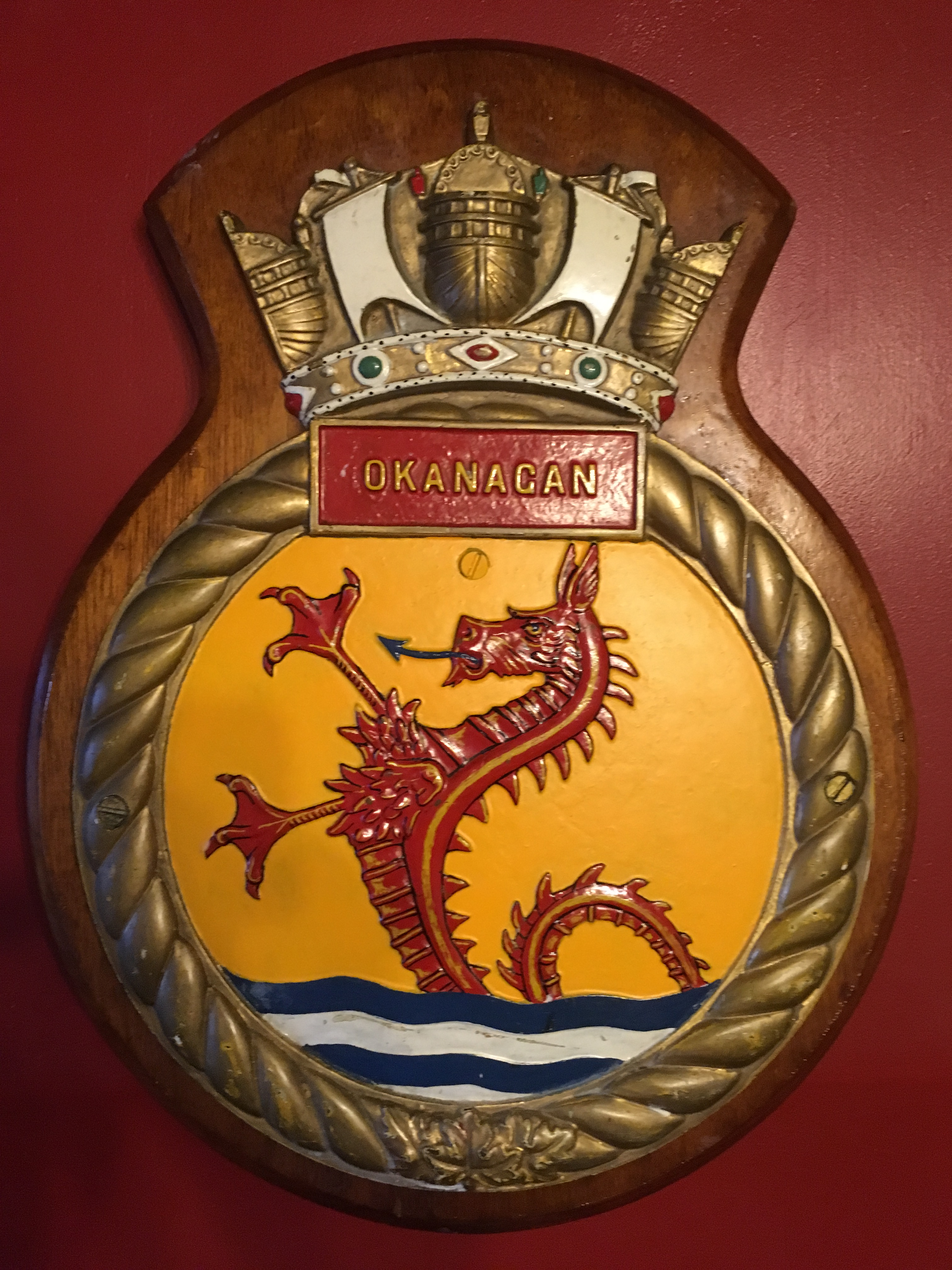 HMCS Okanagan (S74) crest hanging in The George Inn, Reforne, Easton, Portland, England